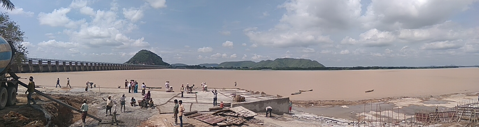 Prakasham Barrage Panorama